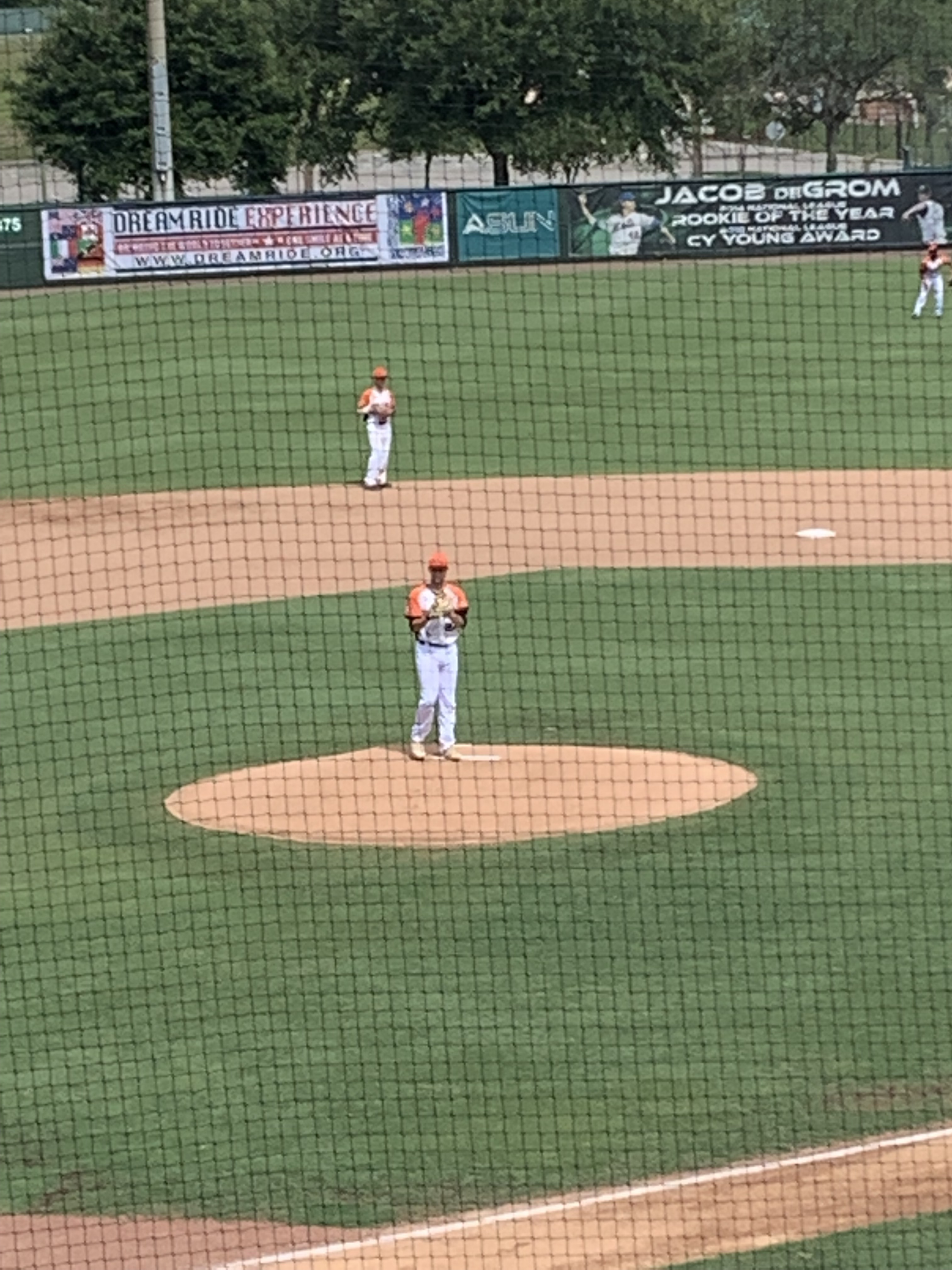 Refer to caption.